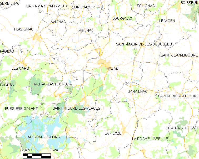 Map of French municipality Nexon